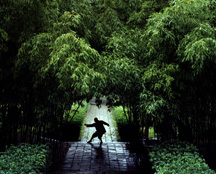 A monk practicing kung fu in the bamboo forest inside the Shaolin Temple.